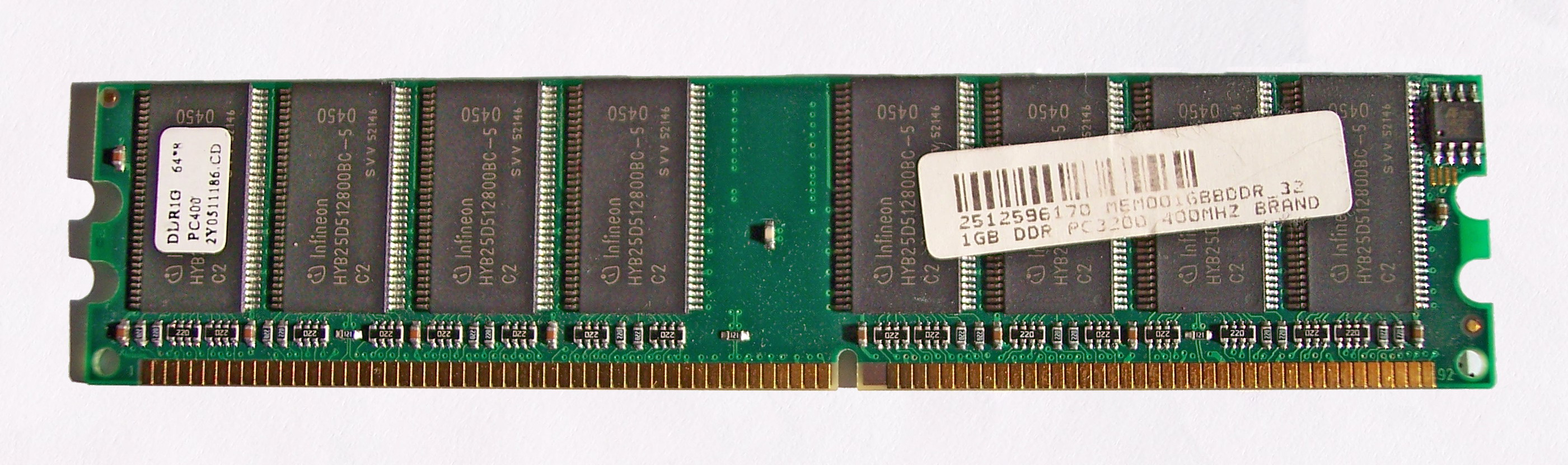 A 1GB DDR RAM memory (400MHz PC3200 brand, Infineon)